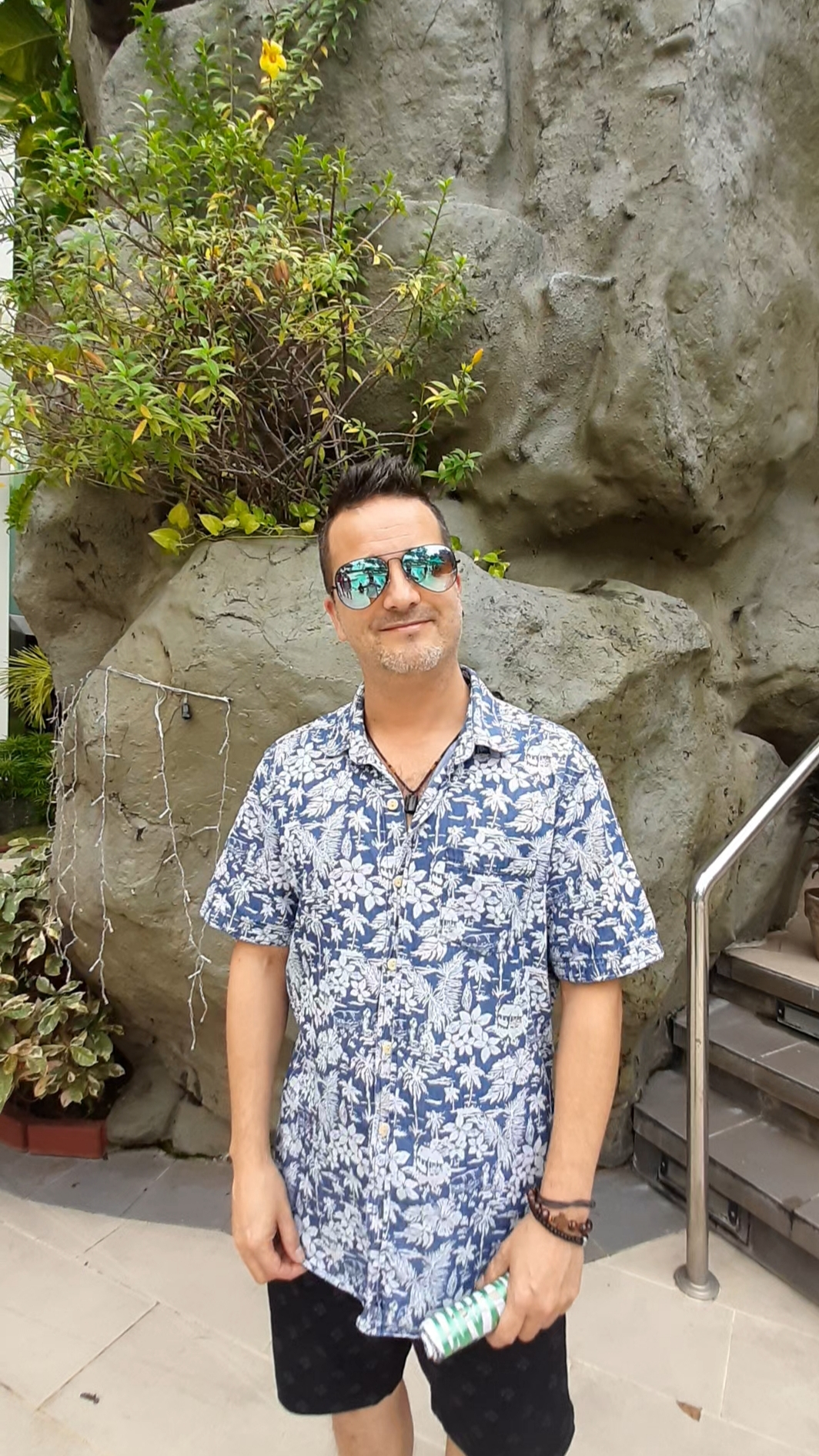 Photo taken while Paul was speaking to his fans a day after the concert